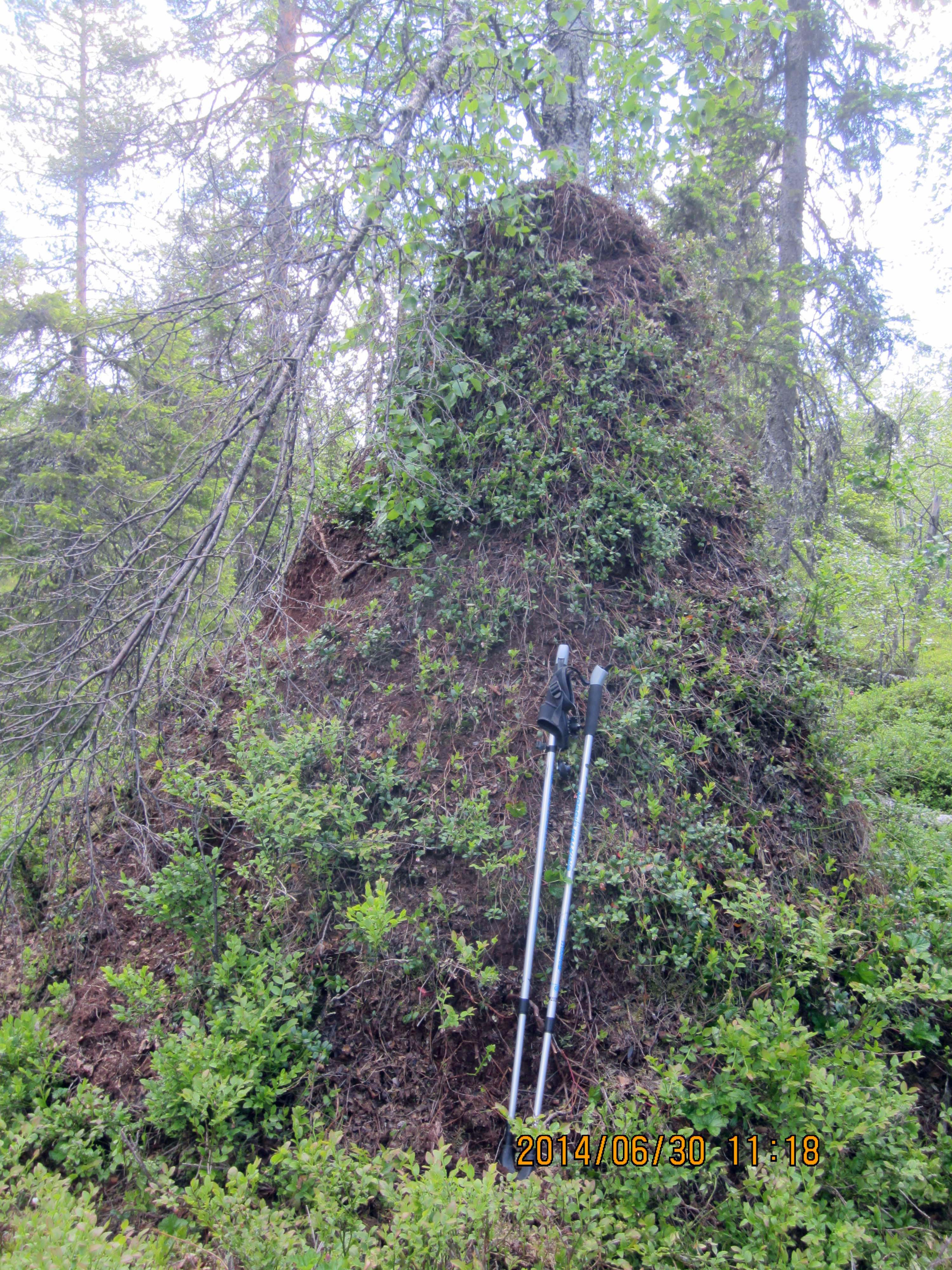 Ant hill in Norrbotten county, Sweden, measured to 279 cm in the year 2013